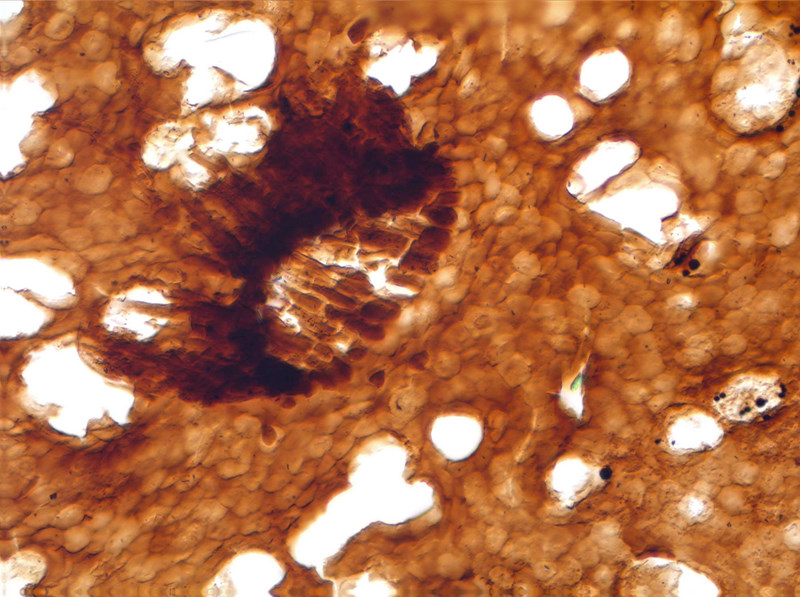 Cuticle of Nematothallopsis showing aperture with multi-cellular filaments